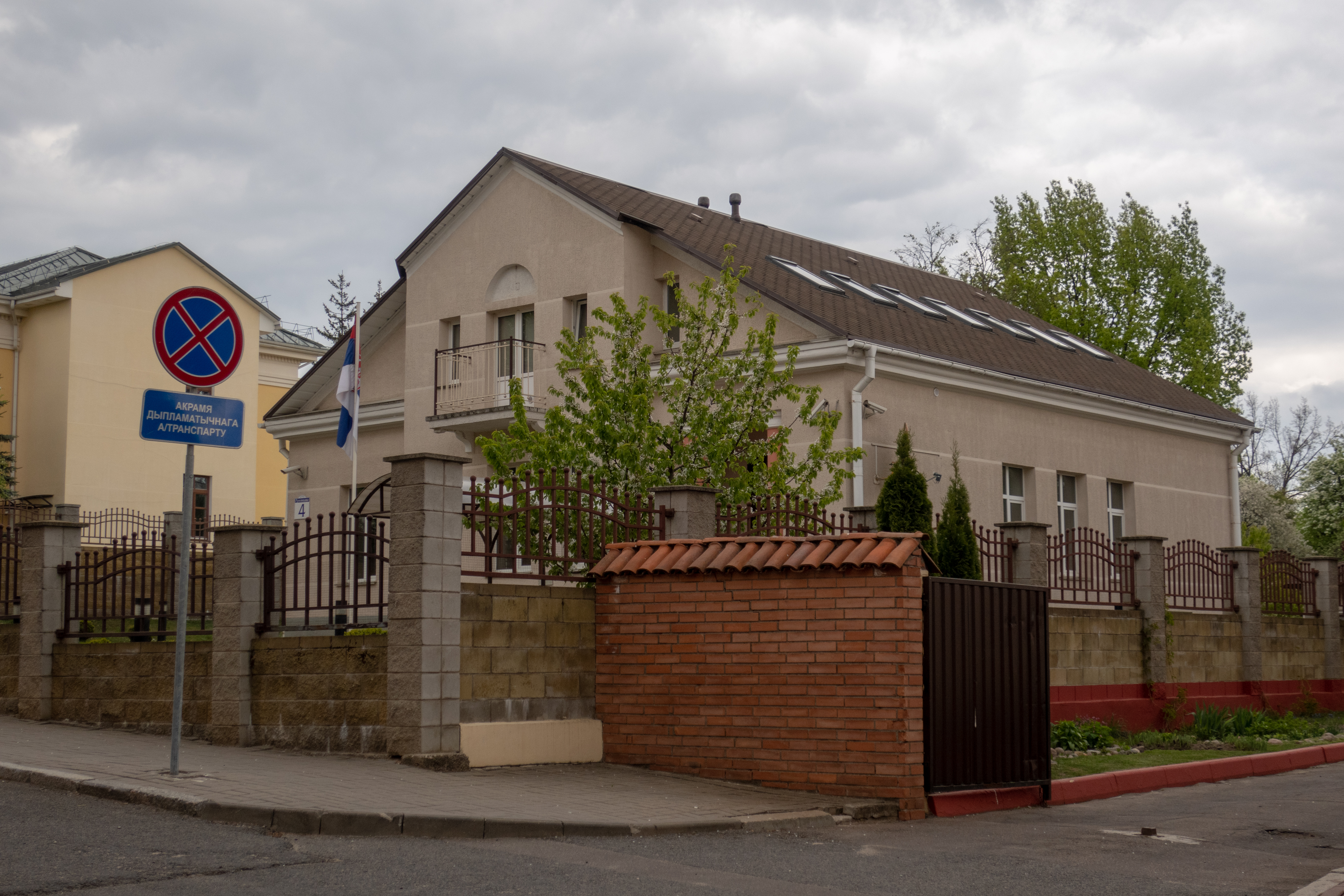 Embassy of Serbia in Belarus